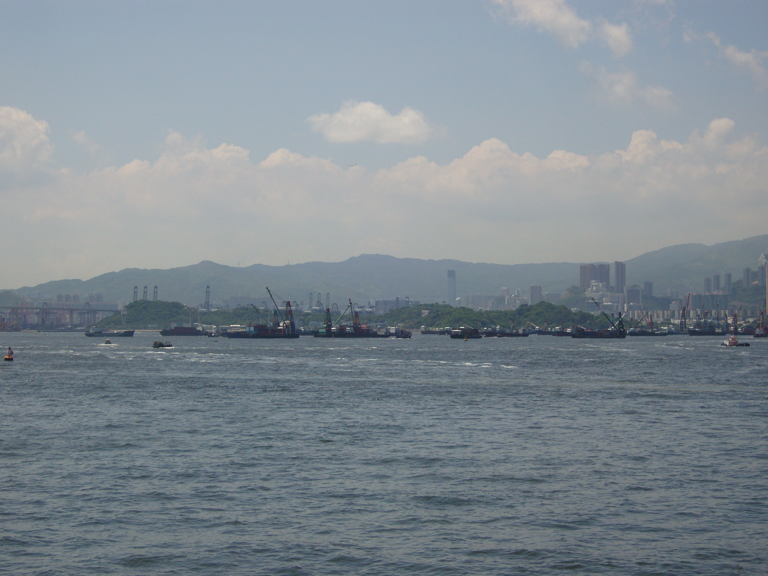 Stonecutters Island